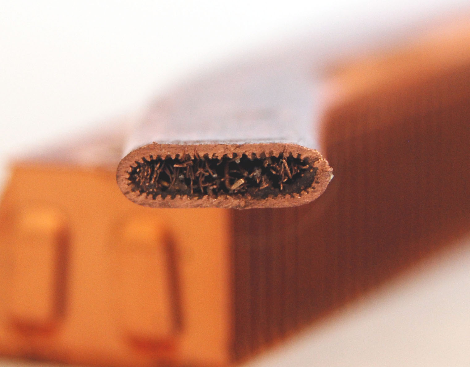 Cross section of a heat pipe of the CPU-cooling system of a laptop